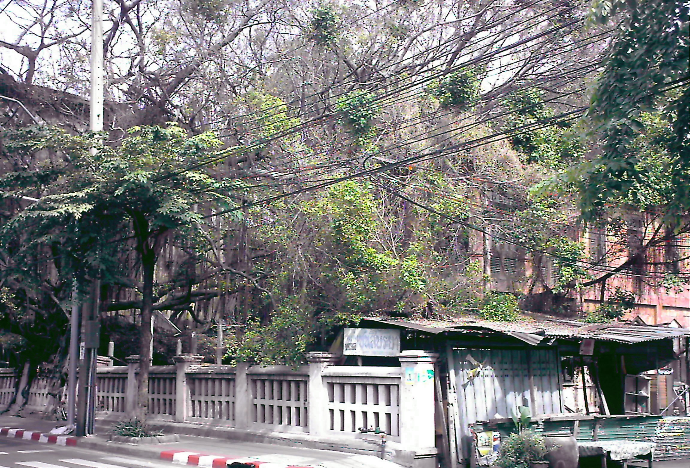 Remain of pro Taiwan Kuo Min Tang's Chinese Club Build at 417 Sipraya Road, Bangkok, Thailand, it is burn by pro communist on 8th May, 1956. 中文（香港）: 泰國，曼谷，挽叻縣，四丕耶路 417號：原來是泰國中華會館的兩層樓之洋房，在1956年5月8日的凌晨被歹徒放火焚燬。